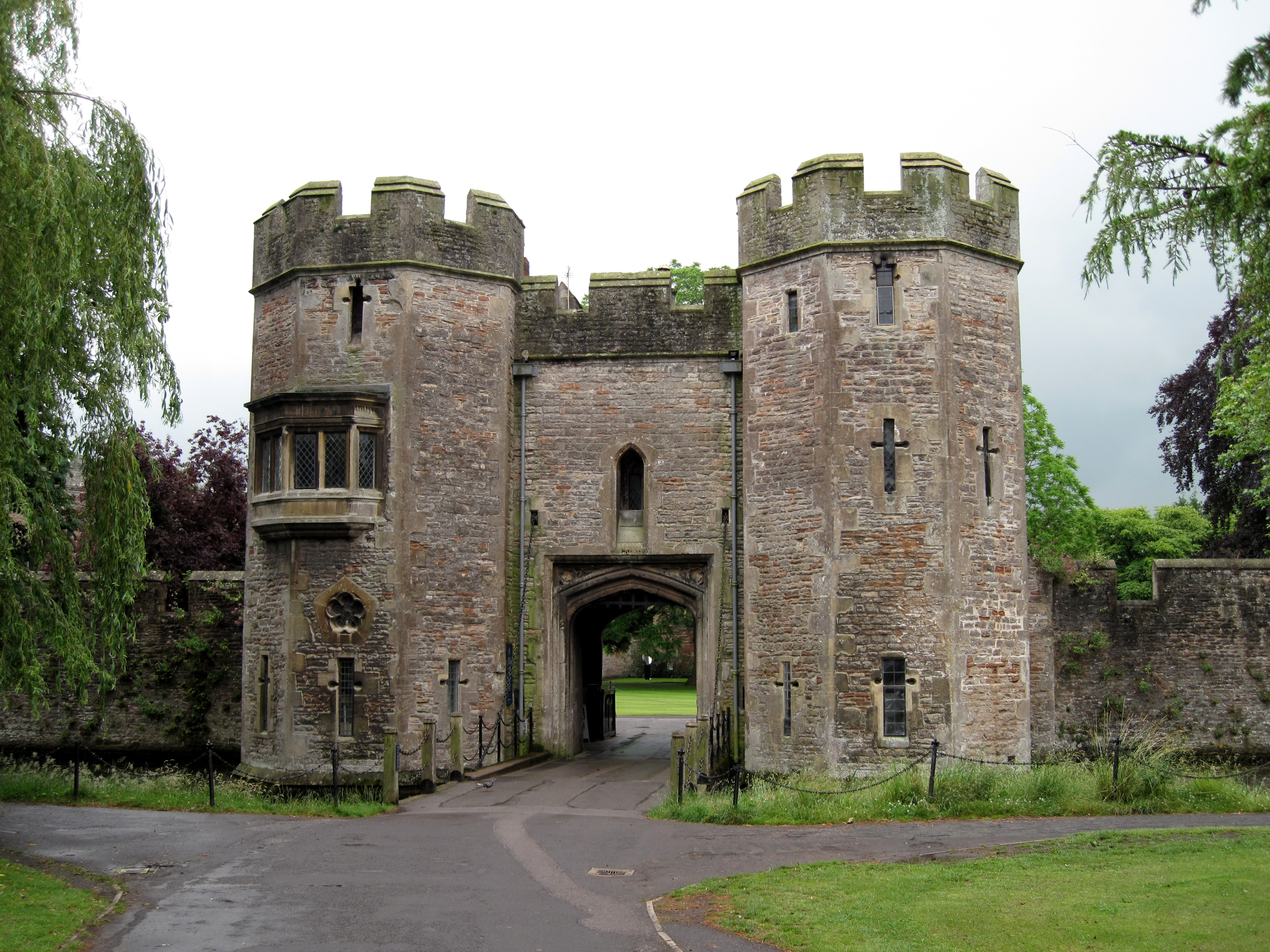 Gatehouse of the Bishop's Palace in Wells, England